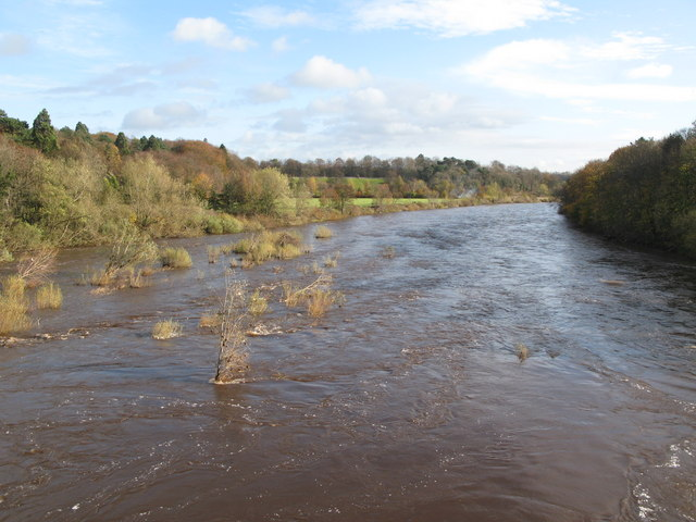 The River Tyne at Corbridge (3) Looking downstream from the bridge.